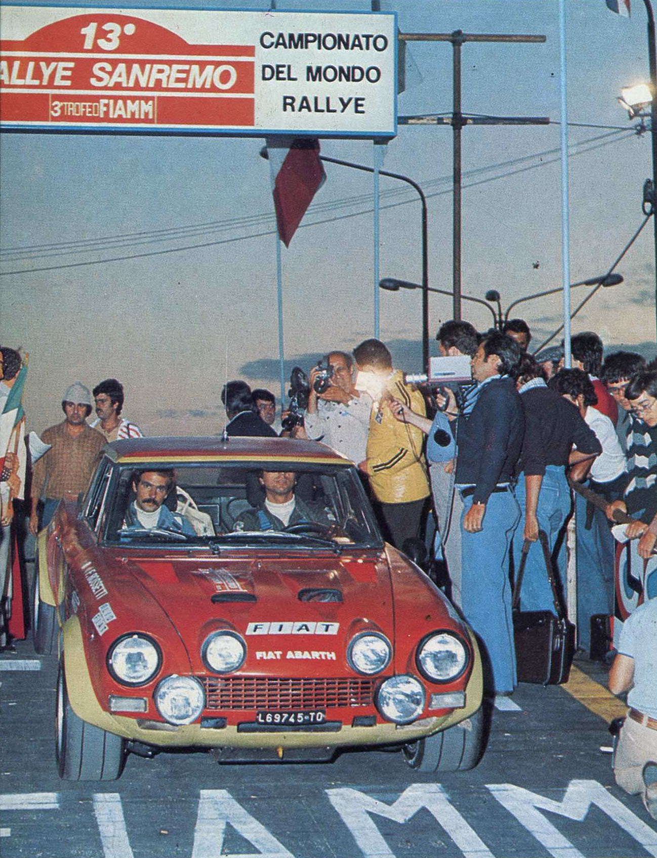 Maurizio Verini and co-driver Francesco Rossetti on a Fiat 124 Rally Abarth (Group 4) at the 1975 Rallye Sanremo.